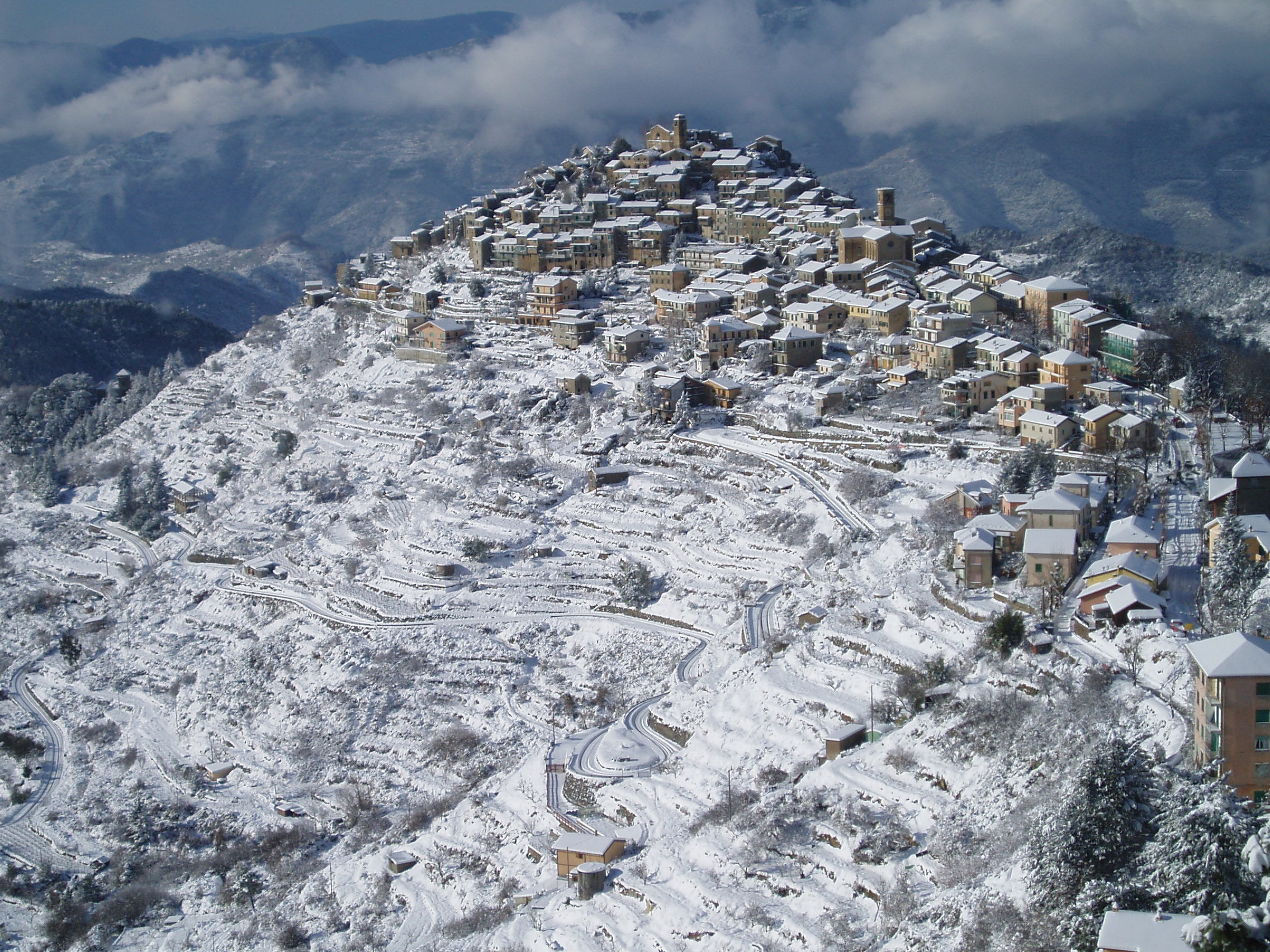 View of Baiardo (province of Imperia, Liguria, Italy) in winter, with snow